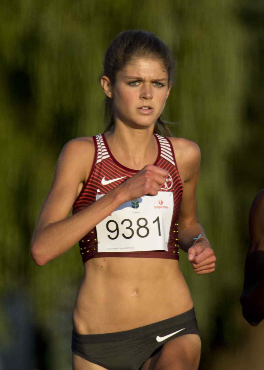 2018 Guldensporenmeeting Kortrijk